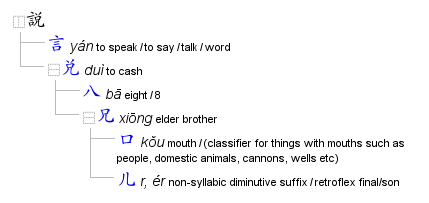 Decomposition of character 說 into components using data from CC-CEDICT.